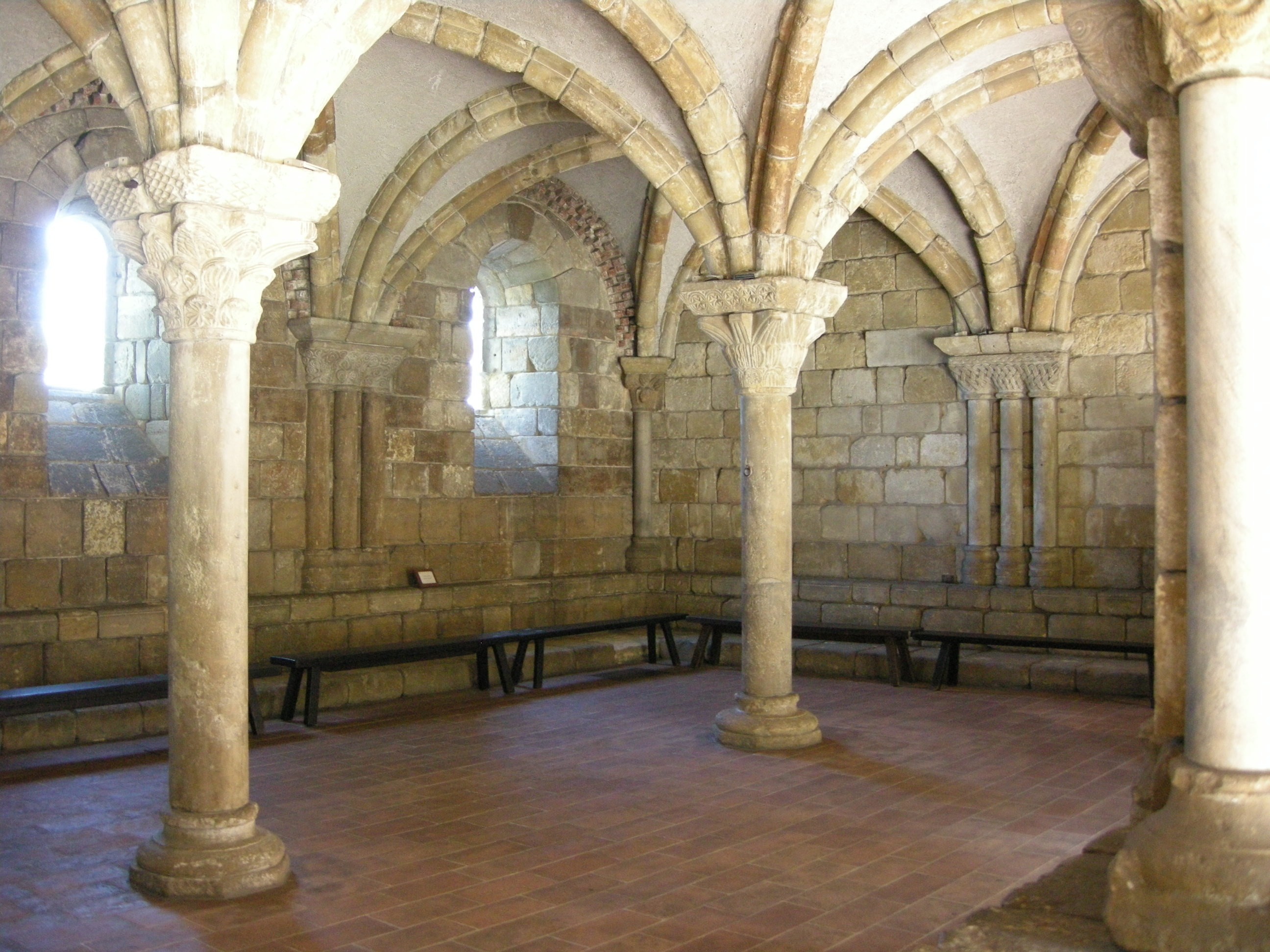 The cloisters, pontaut chapter house